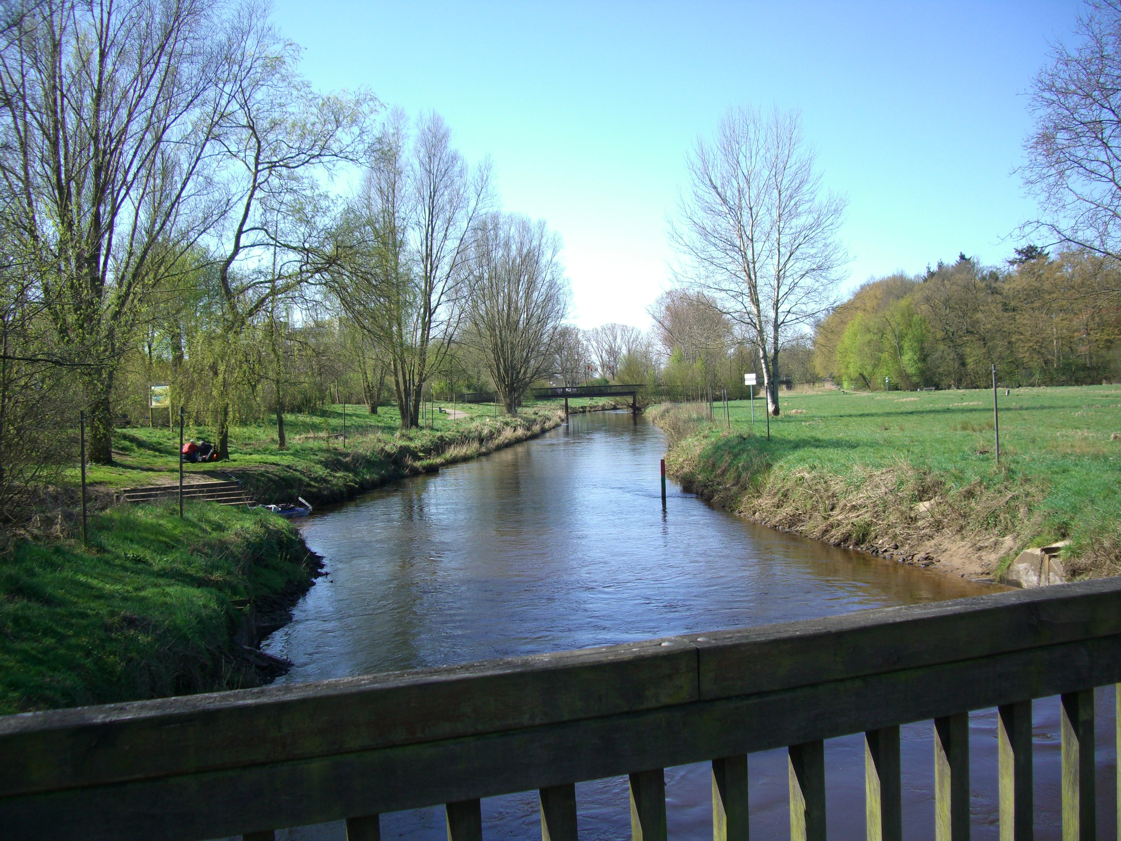 town of Rotenburg, Germany: Wümme river for canouing